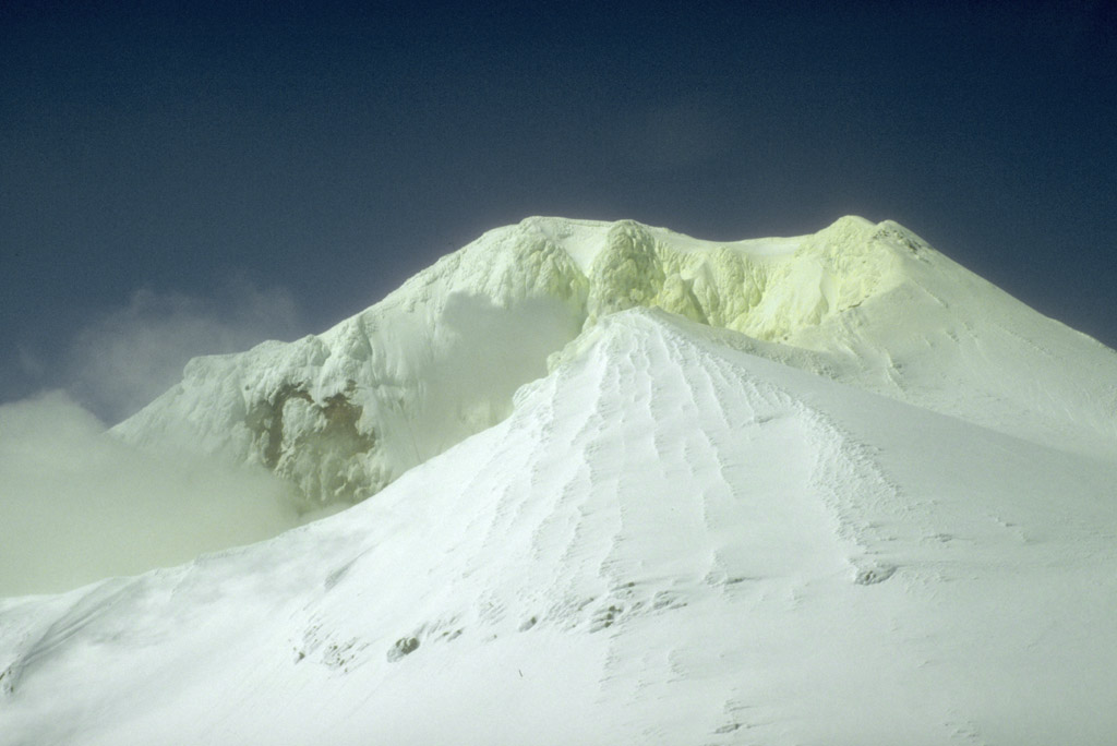 View of the summit crater of 1,863-m (6,112 ft)-high Mount Martin volcano, a largely ice-covered stratovolcano at the southern end of the Katmai group in Alaska. Note the sulfur (yellow) that has been deposited on the snow- and ice- covered crater walls.